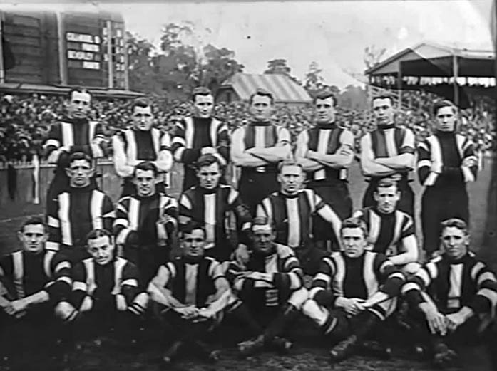 Team of St Kilda FC that played the VFL Grand Final